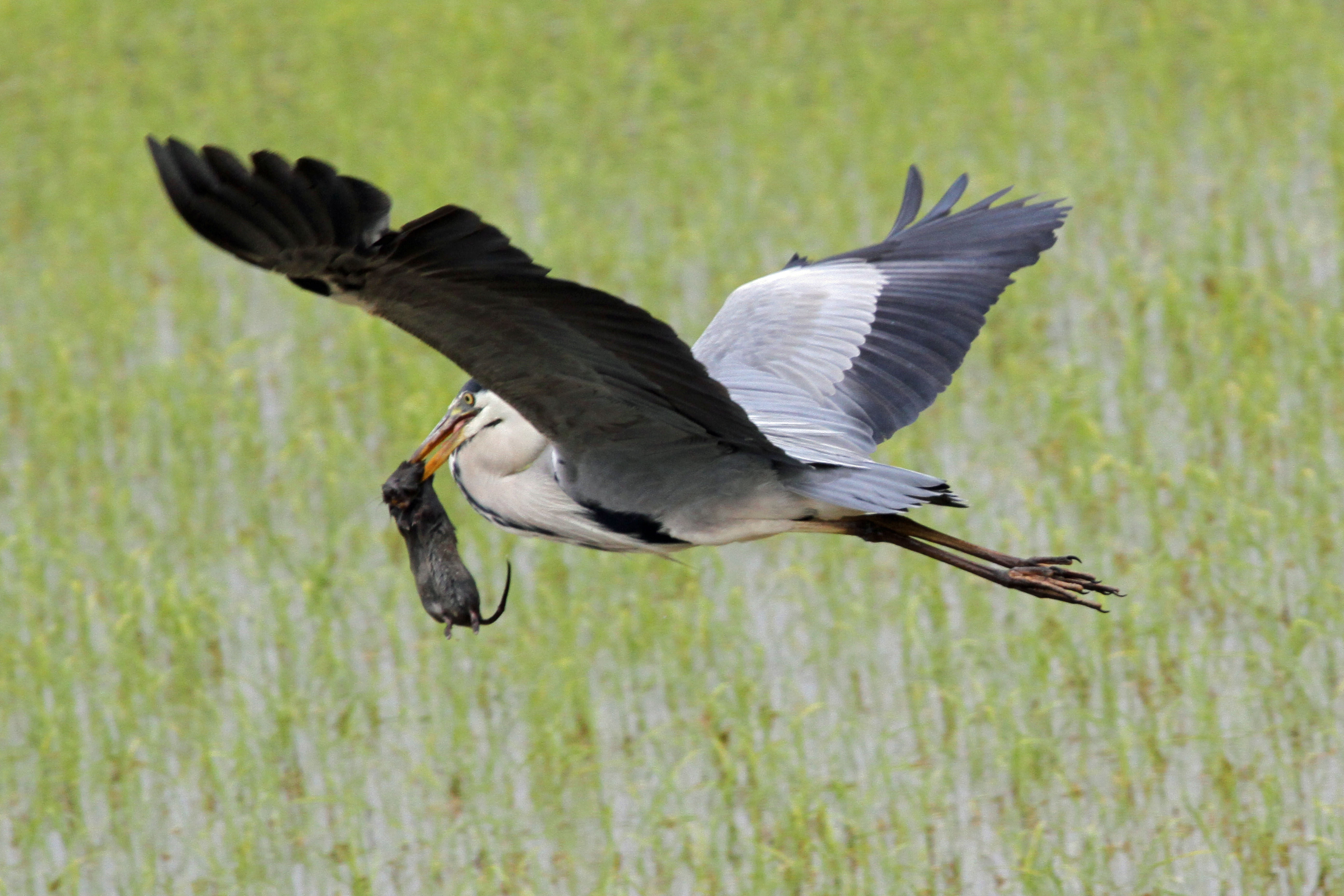 Gray Heron Eating a Rat